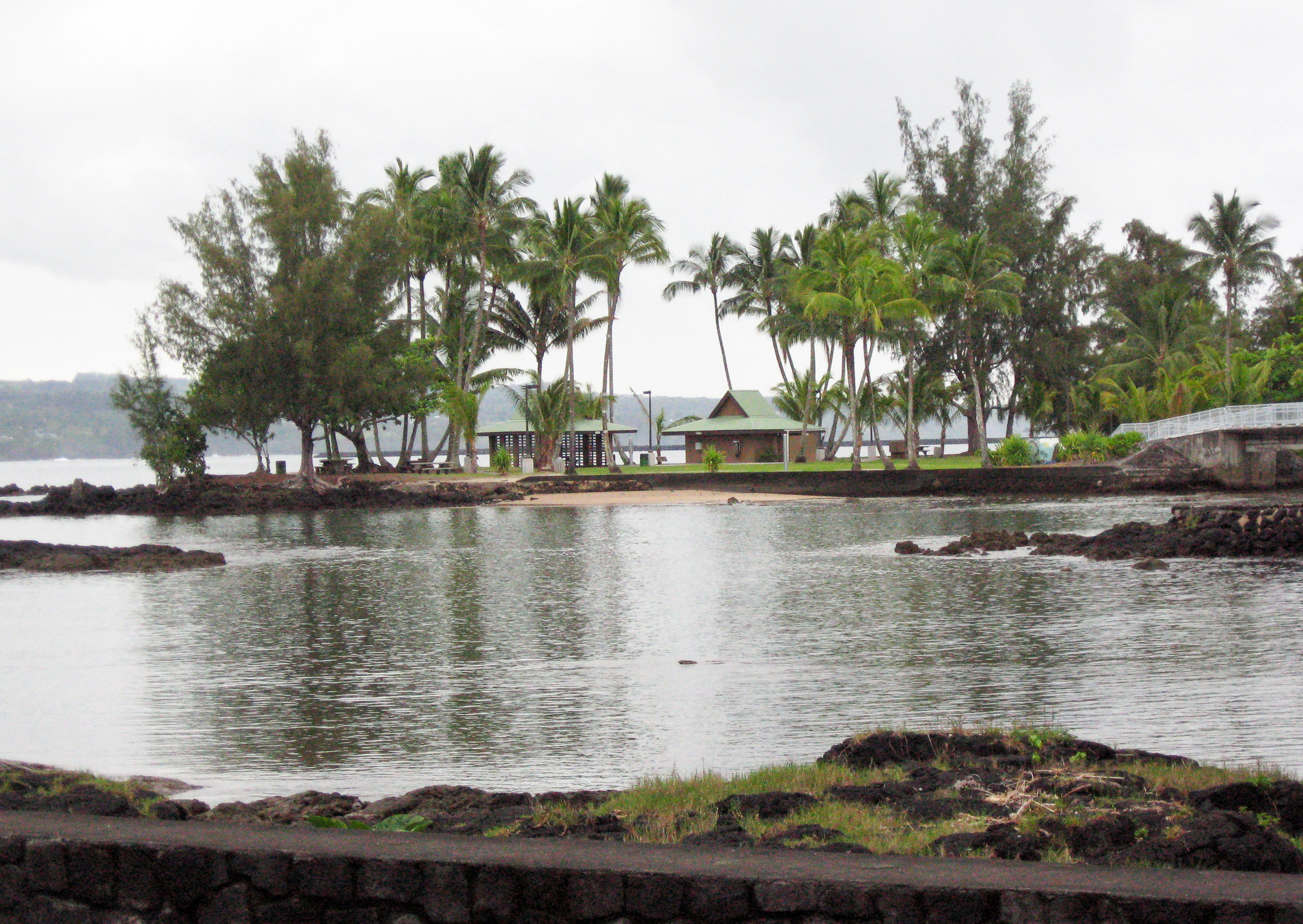 Coconut Island (Hawaiian name: Moku Ola or island of life) is a small park in Hilo Bay, on the island of Hawai'i. It was the site of an ancient healing temple, and used in World War two to train for amphibious landings.